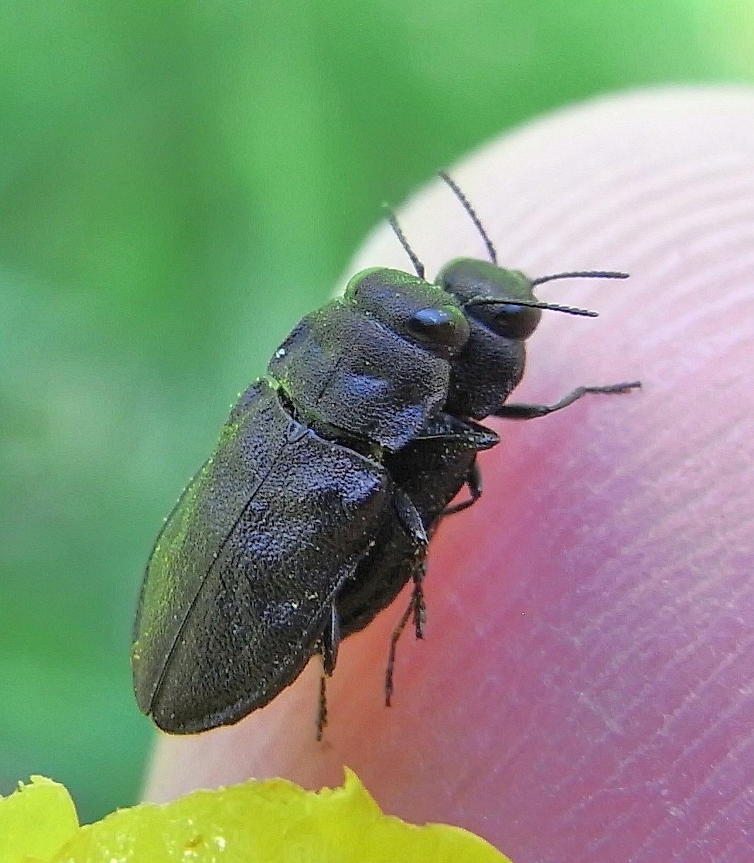 Anthaxia godeti from Hungary, Zemplen-mountains at 2010-06-11Ricoh R8